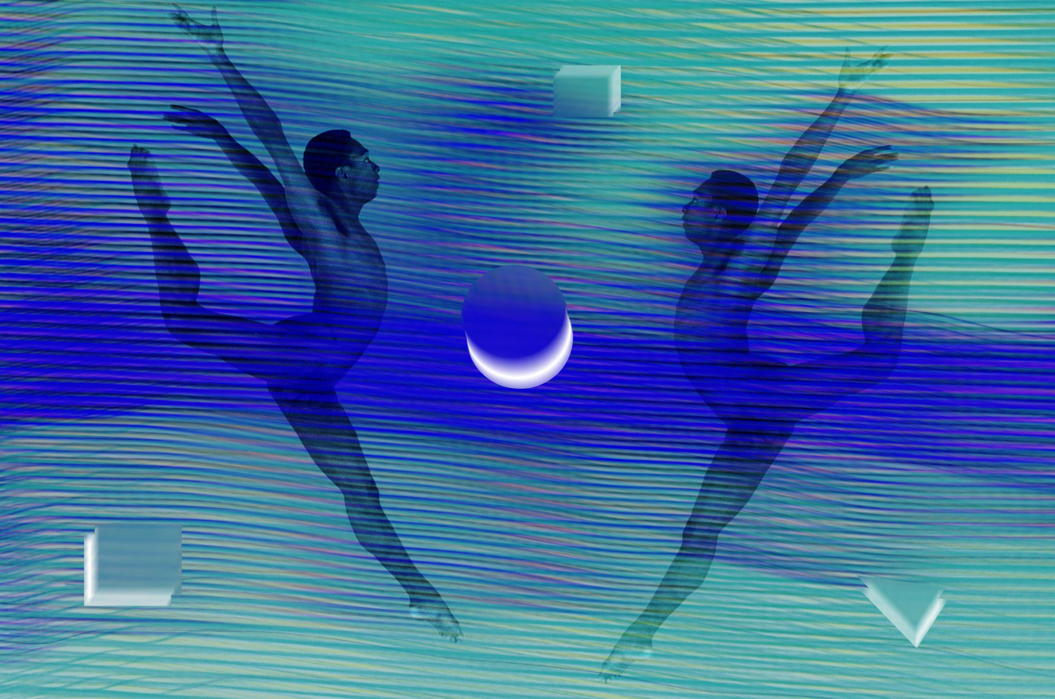 Special guest as model in the photo, Rui Moreira Dancer, choreographer and crop researcher. As an artist he has recognized brands for his participation in Grupo Corpo (MG), Cisne Negro (SP), Balé of the City of São Paulo, Cie. Azanie (France), Cia. SeráQuê? (MG), Rui Moreira Cia. De Danças (MG). Lead the ONG SeráQué? Cultural institution with the seal of Culture Point that among other actions, develops the project with a conceptual focus in traditional and contemporary black dances, titled Contemporary Dance Terreiro Network. Currently composes a group of articulators that participates in the National Politics of the Arts of MinC / Funarte. Photography by Sergio Valle Duarte.